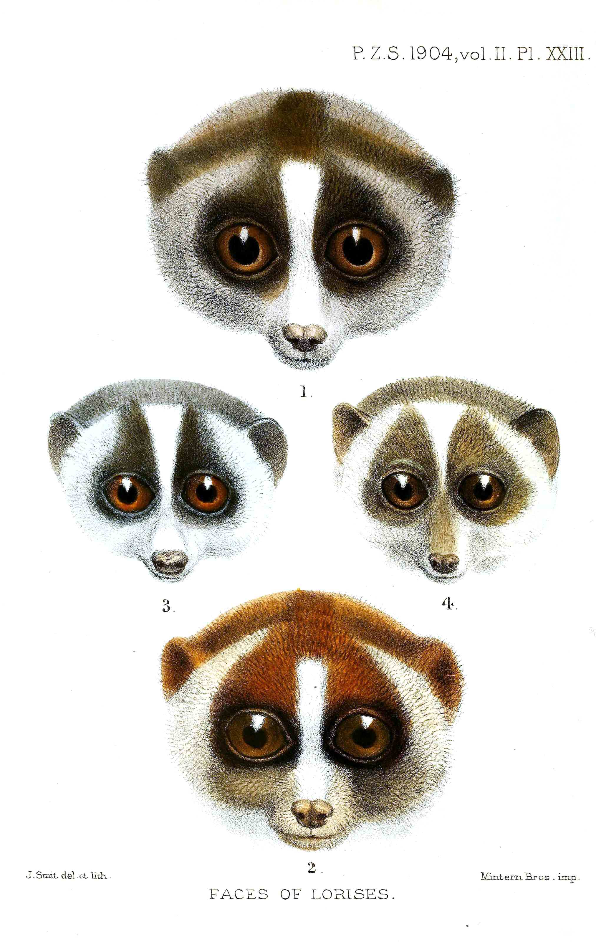 "Faces of Lorises" Original caption: Fig. 1. Head of Nycticebus tardigradus malayanus 2. Head of Nycticebus tardigradus hilleri 3. Head of Loris gracilis typicus 4. Head of Loris gracilis zeylanicus Translation to modern nomenclature: Fig. 1. Head of Nycticebus coucang coucang 2. Head of Nycticebus coucang coucang 3. Head of Loris lydekkerianus lydekkerianus 4. Head of Loris tardigradus Note: The identity of figures 1, 2, and 4 are not certain. See review of loris synonyms